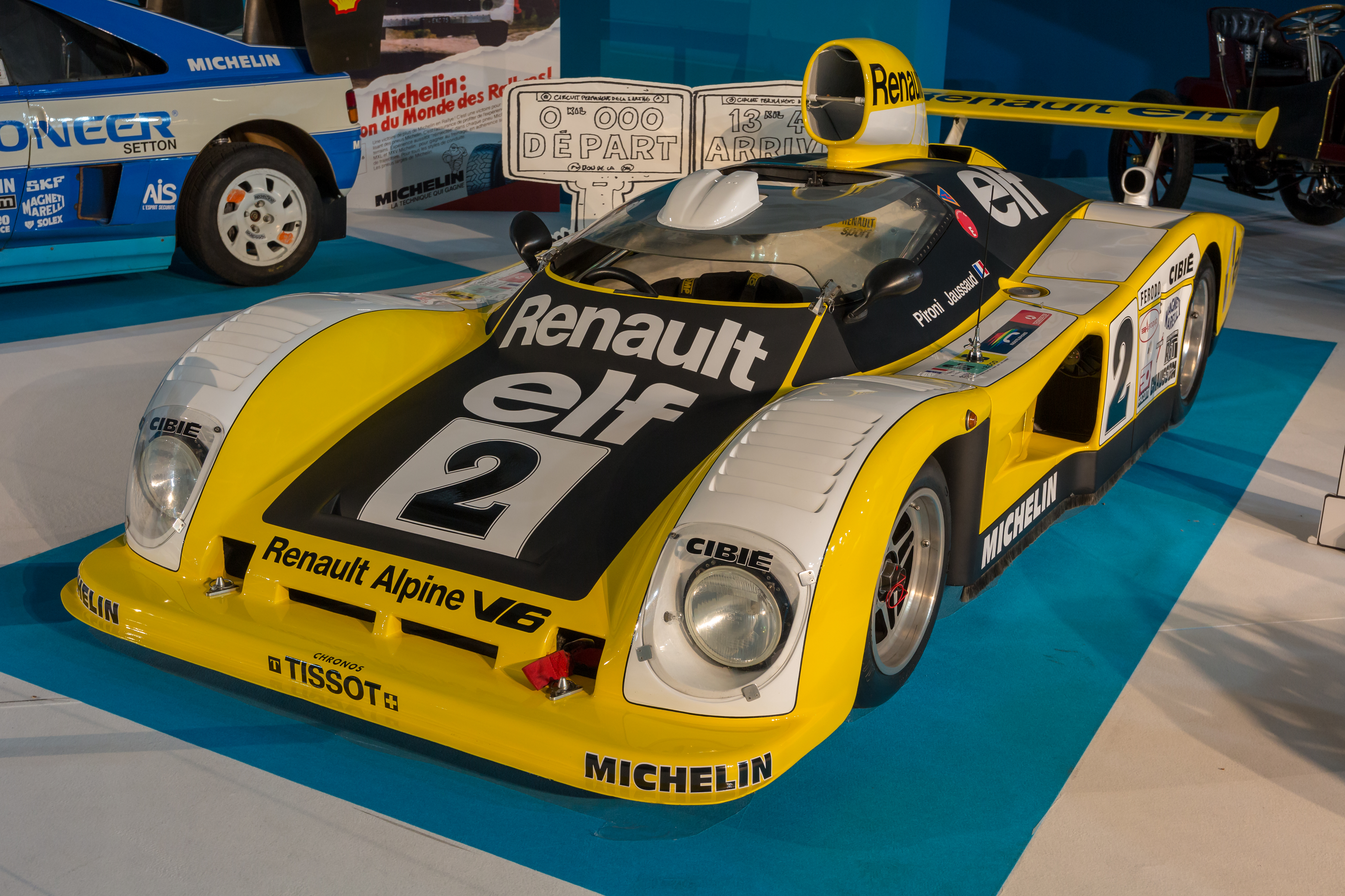 Renault Alpine A442B, Mondial Paris Motor Show 2018